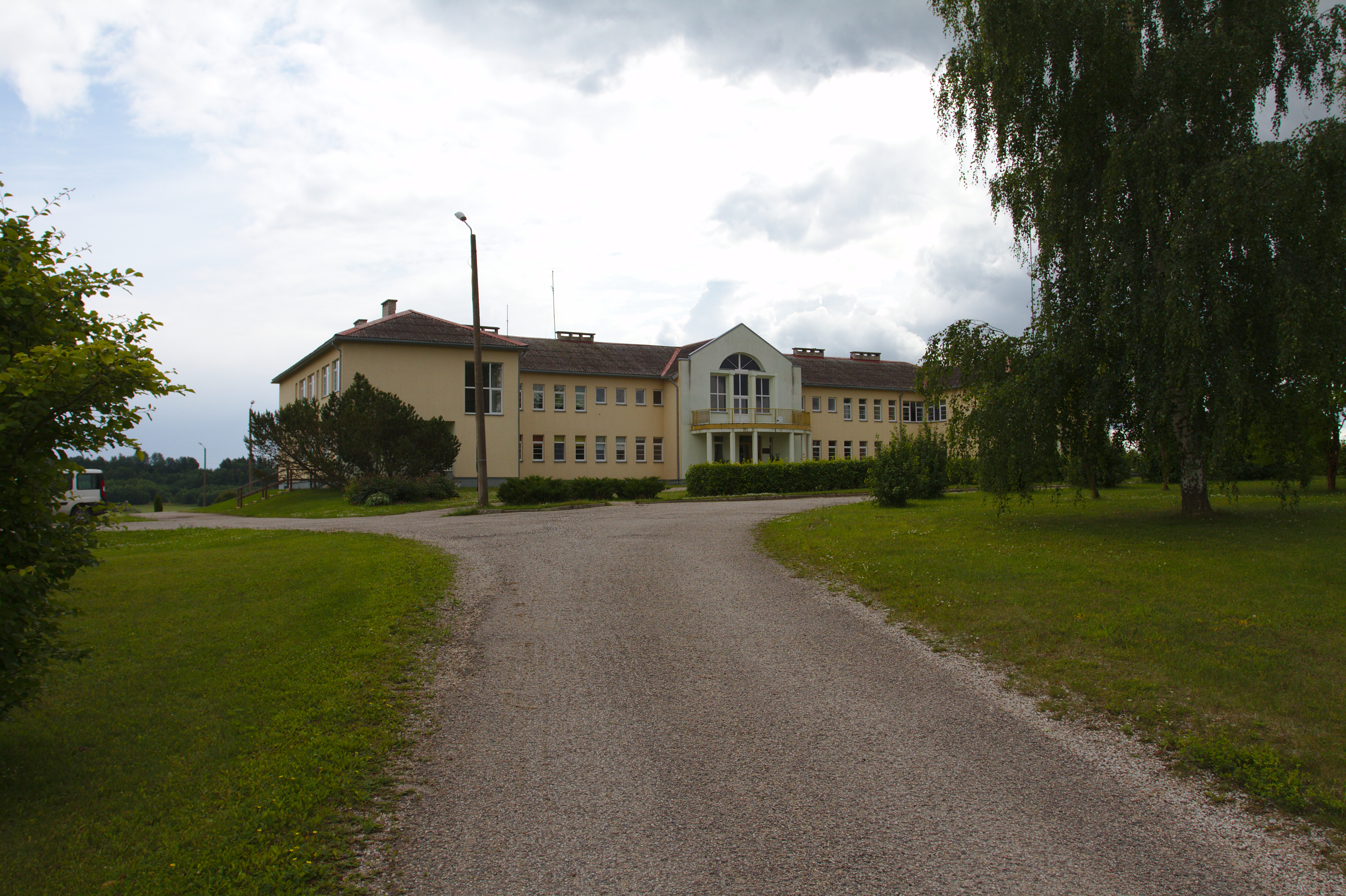 Krootuse Põhikool. Õppetööga alustati 1. september 1989